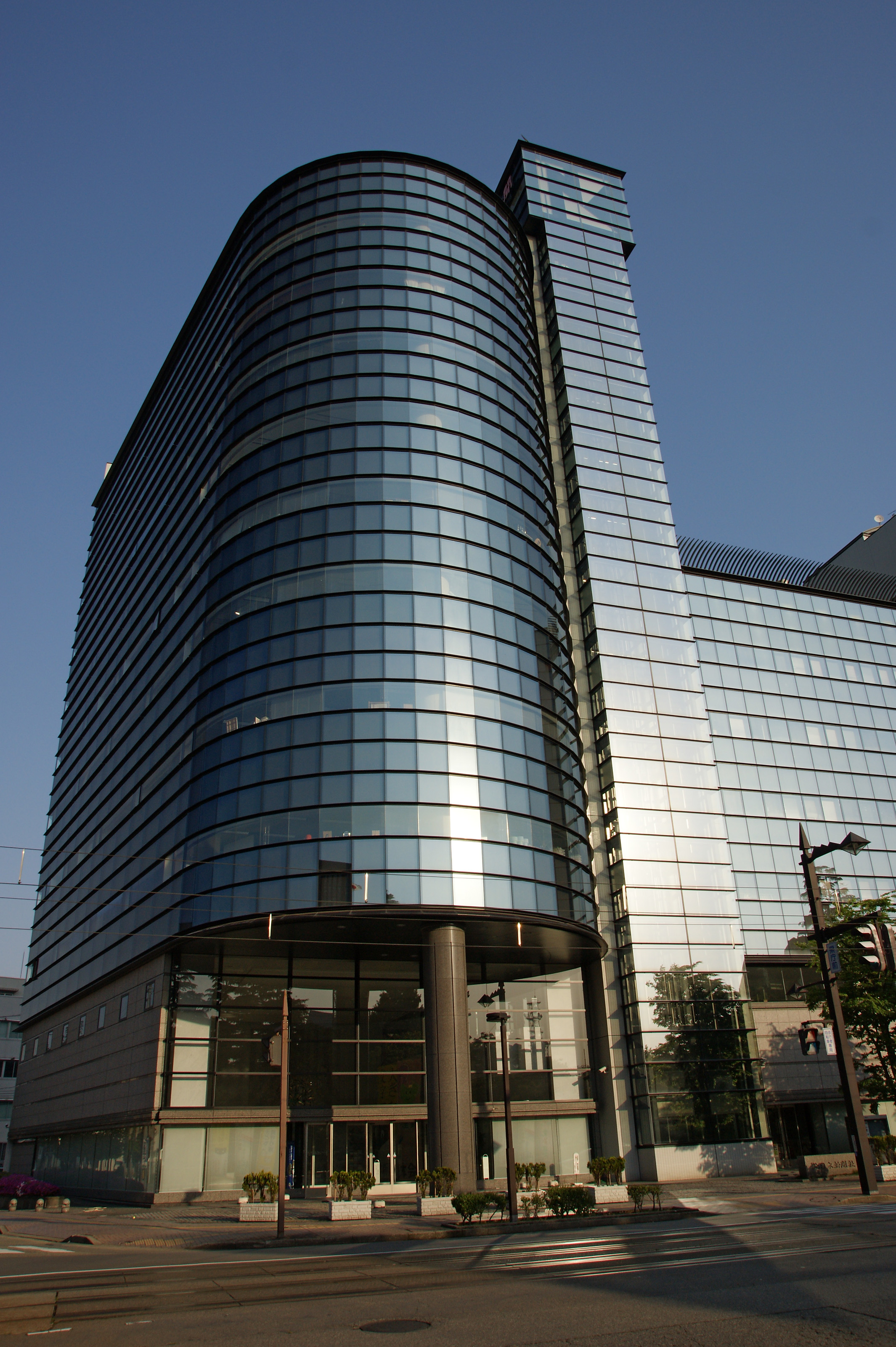 Kitanippon Shinbun corporate headquarter building in Toyama, Toyama prefecture, Japan